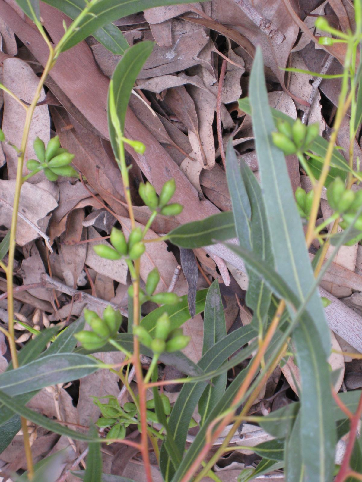 Photographed at Huntington Gardens (Los Angeles) in April